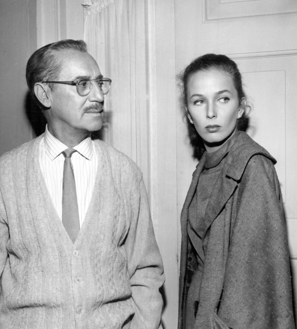 Photo of Groucho Marx and Brooke Hayward in the presentation "The Hold Out" on General Electric Theater. This was Groucho's first serious dramatic role, playing the father who disapproves of his teenage daughter's (Hayward) marriage.